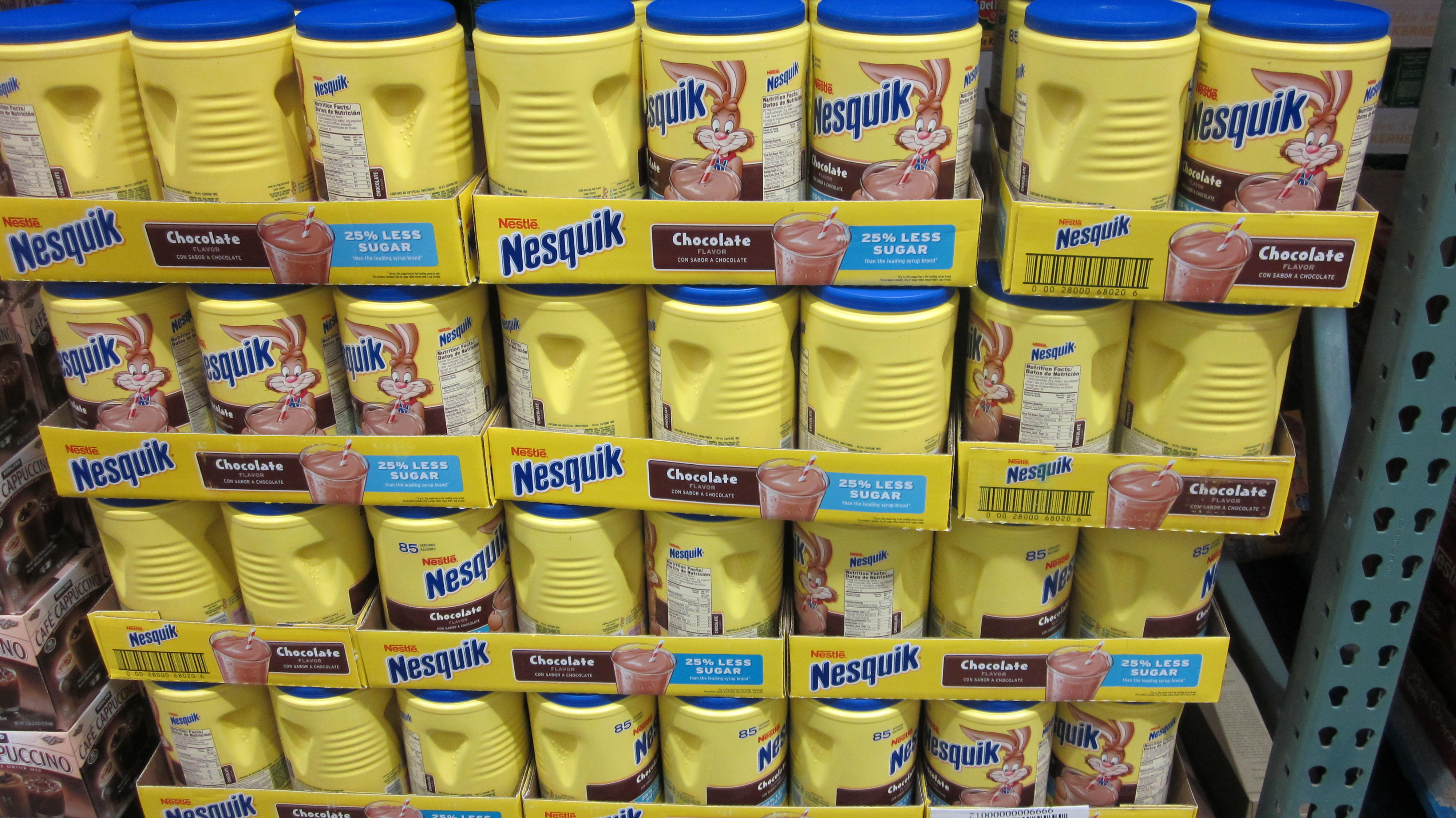 Bottles of Nesquik at Costco Warehouse no. 475 in South San Francisco, California.